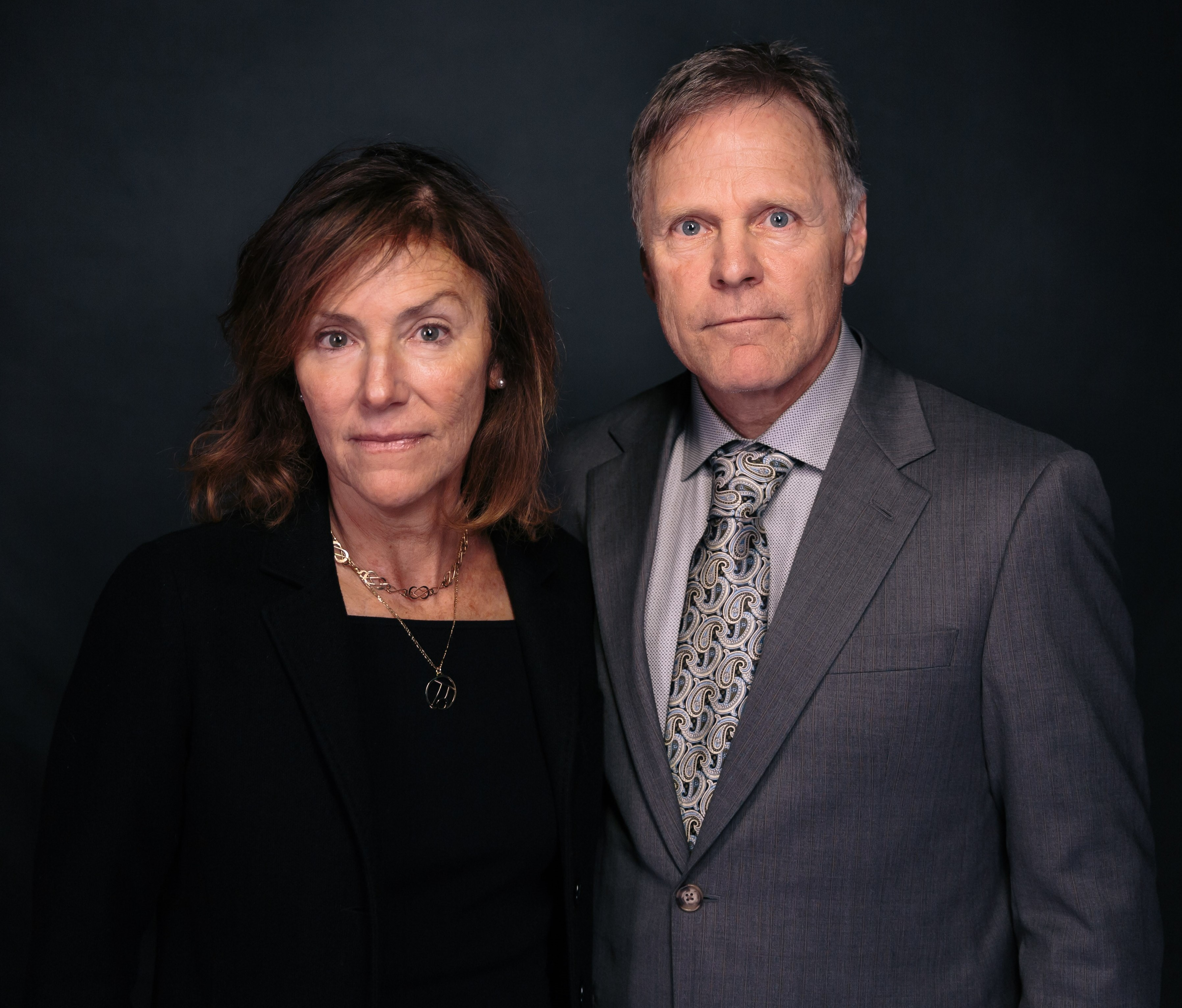 Fred and Cindy Warmbier, parents of Otto Warmbier, the American who fell into a coma after being arrested in North Korea in 2016, were guests to the 2018 State of the Union address.